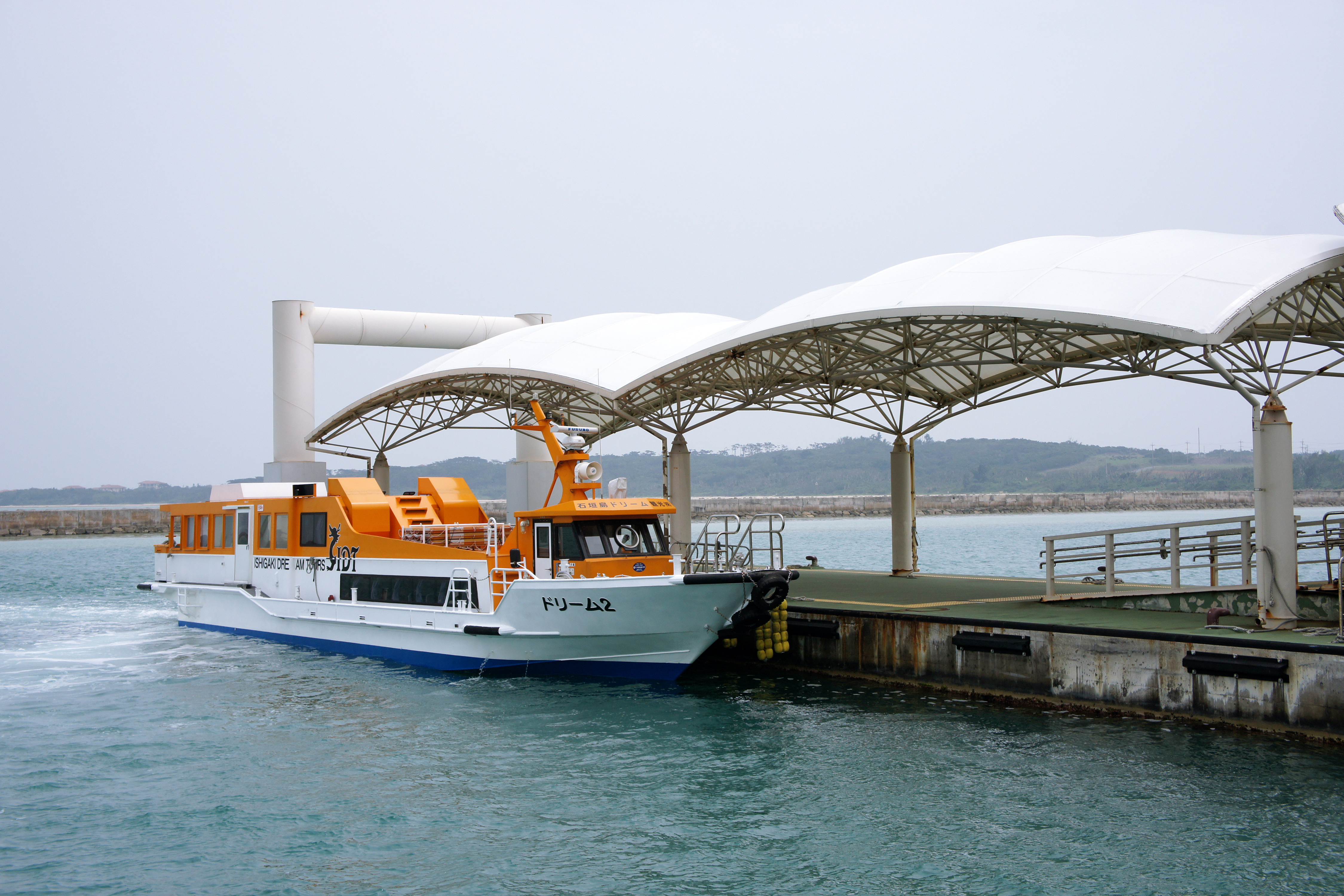 at Kohama Port in Kohamajima, Taketomi Town, Okinawa Prefecture, Japan.